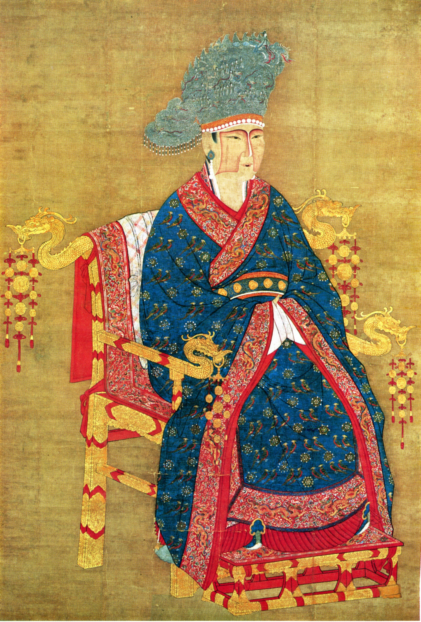 Zhangyi Empress Li of Hangzhou of the Emperor Zhenzong of the Song dynasy. Hanging scroll, color on silk. Size 177 x 120.8 cm (height x width). Painting is located in the National Palace Museum, Taipei. (See: Page 100 of 故宮圖像選萃 (Gu gong tu xiang xuan cui) Masterpieces of Chinese Portrait Painting in the National Palace Museum. Taipei: National Palace Museum. 1971.)